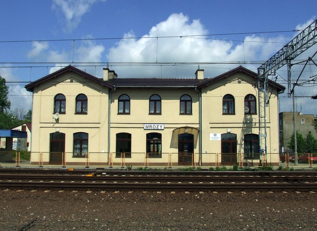 Train station Mrozy.